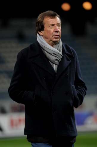 Yuri Semin